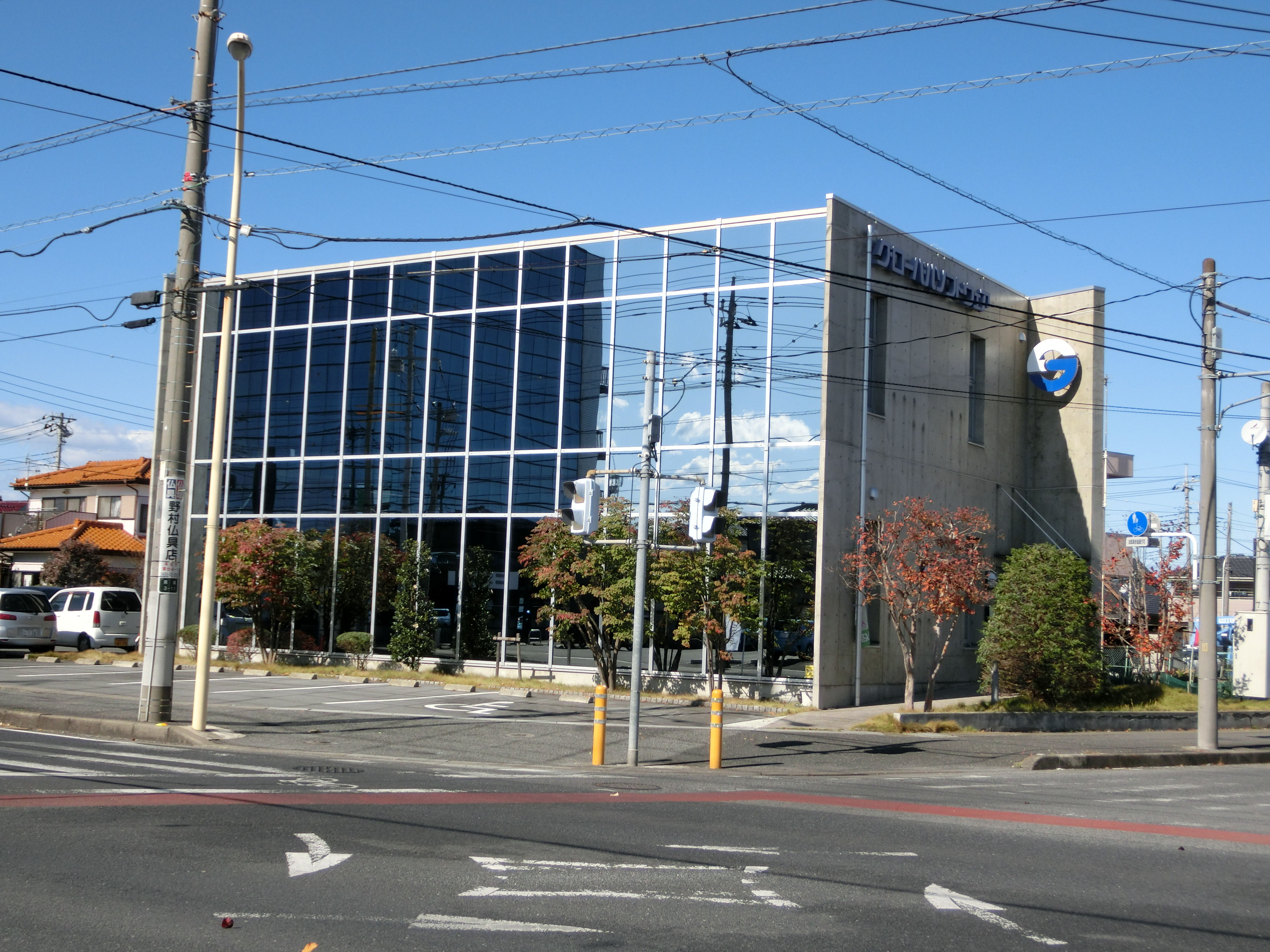 Global Software Inc Head Office (Japan)